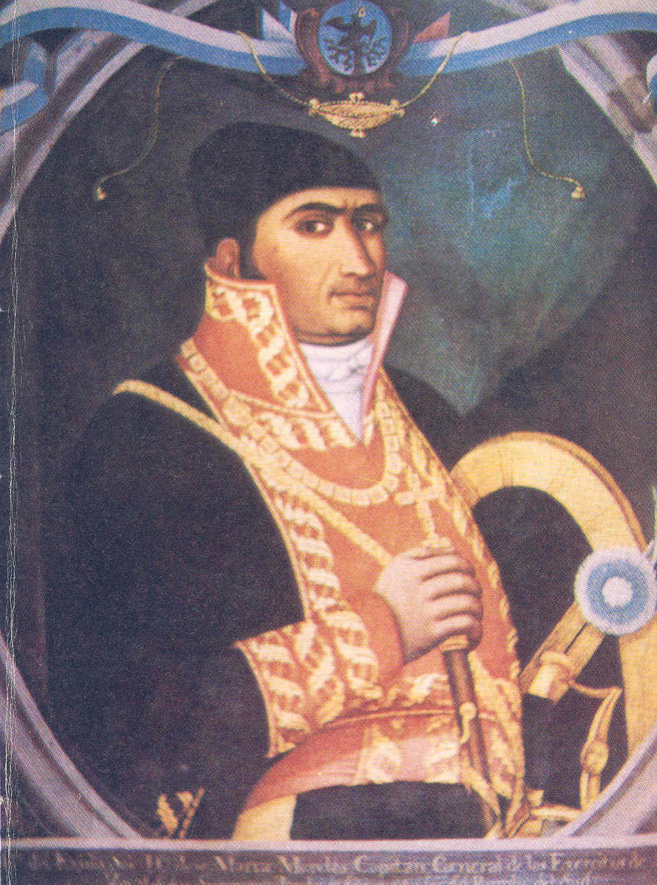 Portrait of José María Morelos